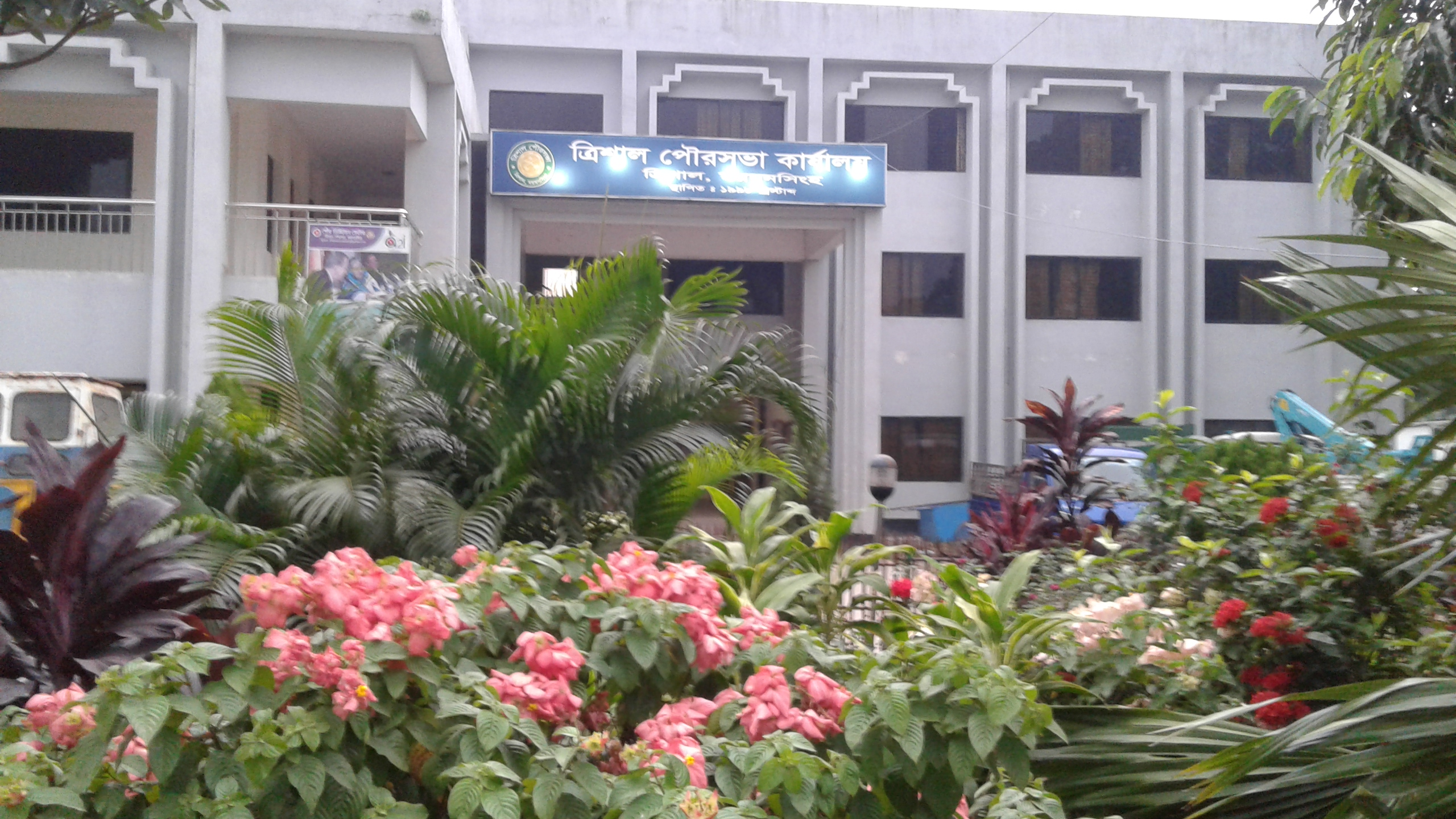 trishal porsobar bobon